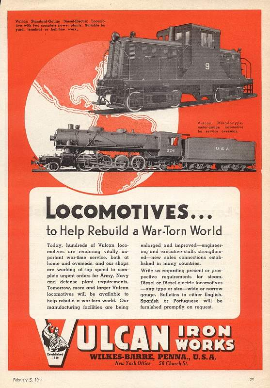 Advertising poster depicting Vulcan Iron Works of Wilkes-Barre, Pennsylvania, in 1944. Two locomotives, one steam, one diesel-electric, move boldly across a circular map showing the Americas. The main caption reads "Locomotives... to Help Rebuild a War-Torn World", with a description of how "Vulcan locomotives are rendering vitally important war-time service".